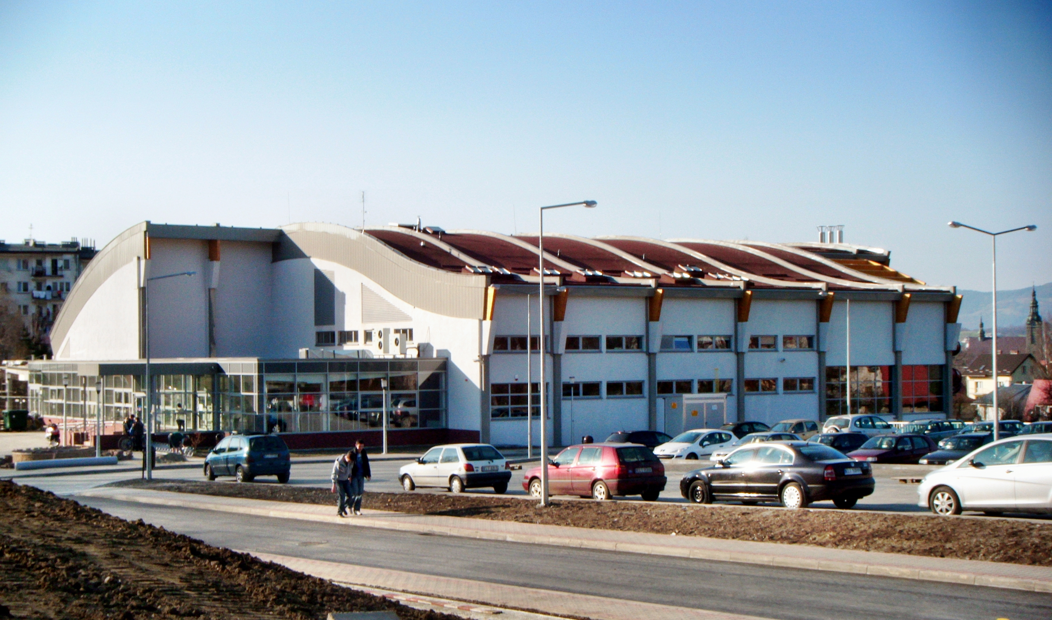 Kryty basen w Limanowej